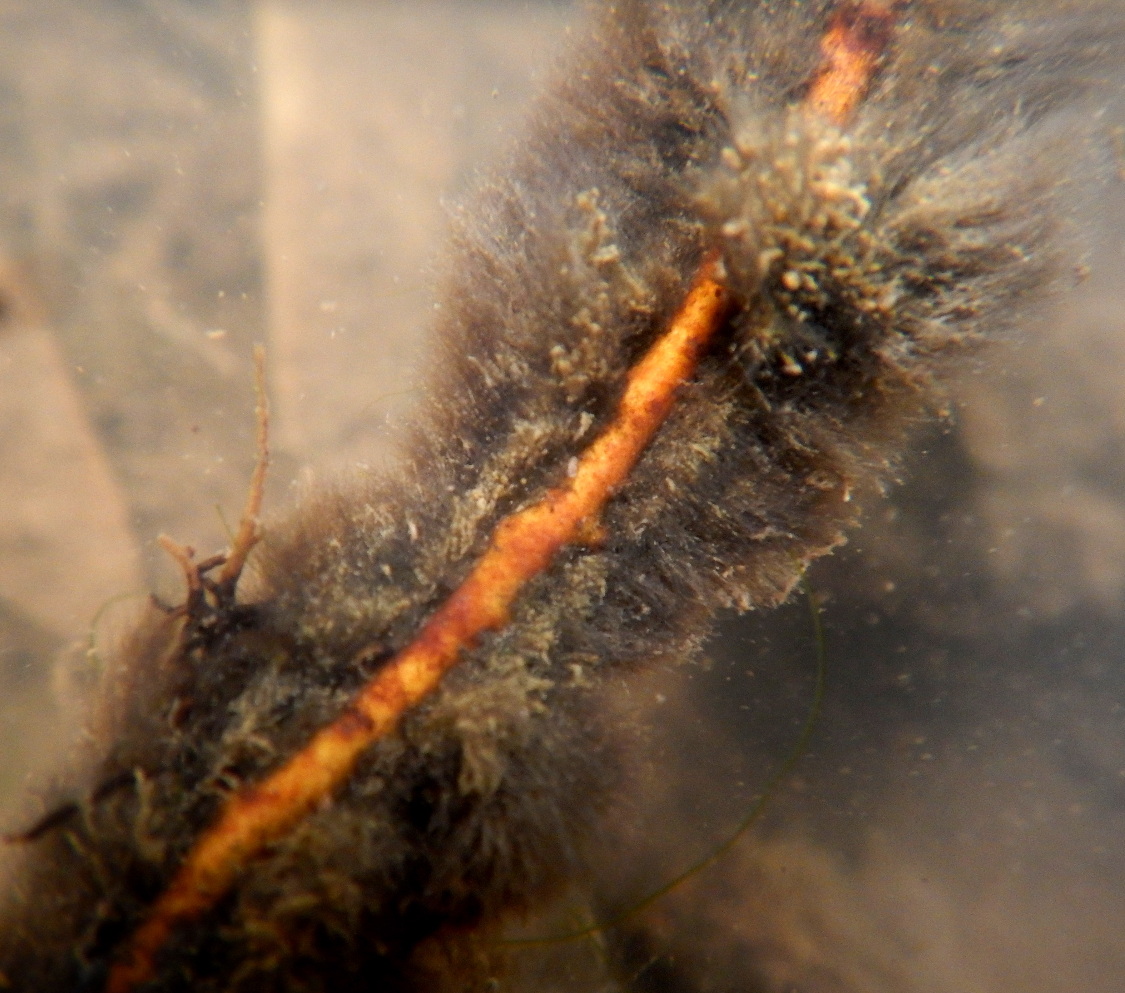 Symbiotic association (apparently of filamentous bacteria) forming a dense sleeve (thickness of a finger) disposed around the roots of a big alder. Underwater photograph taken in a pond of a public garden in Lille (north of France). The precise location is a low-velocity zone of a smal stream, the bottom of the pound is rich in red shale particles (from black shale "cooked" in heaps burning in the region). In this place, the water that flows il often are strongly turbid after heavy rains because in part by the runoff paths red shale.